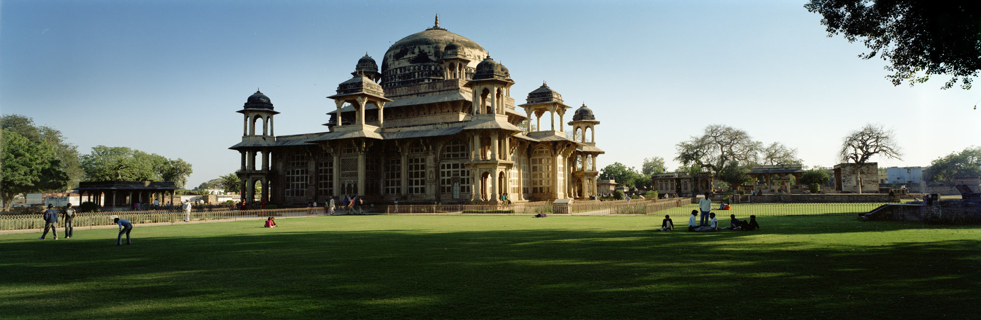 Mohammad gaus tomb